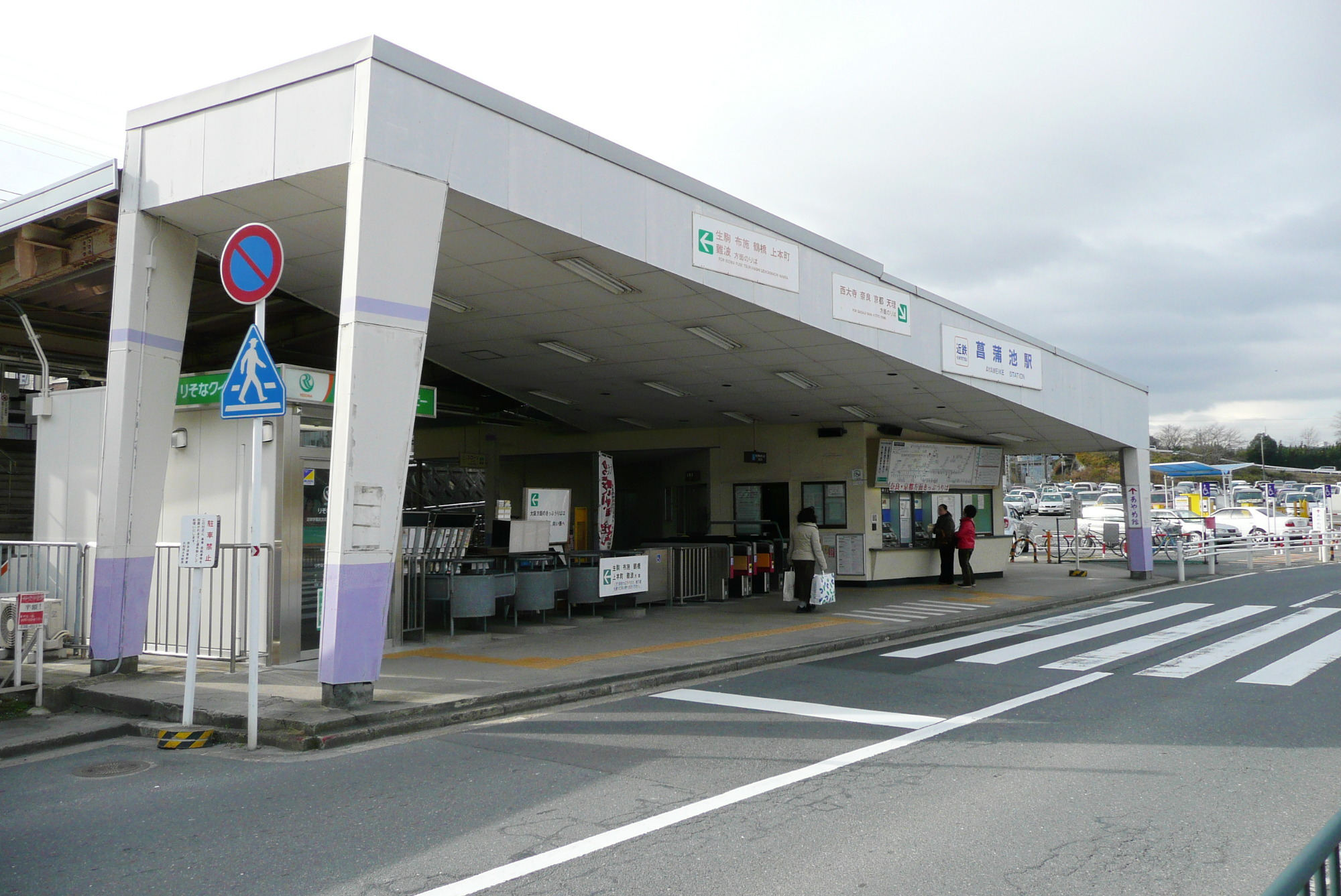 Kinki Nippon Railway,Nara Line,Ayameike Station north entrance. / 近鉄奈良線菖蒲池駅北口（奈良方面のりば）